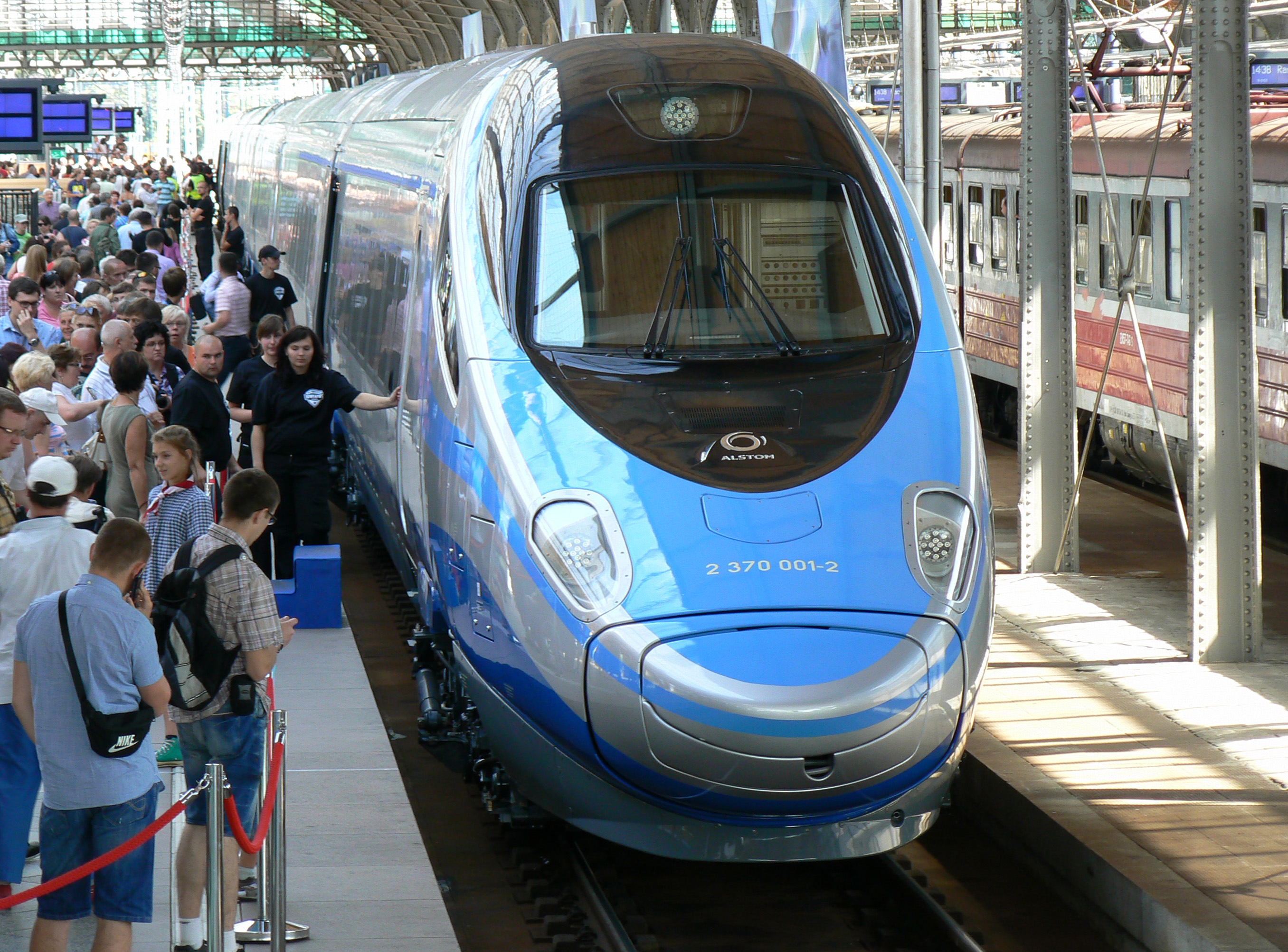 PKP IC Pendolino, photo taken during first presentation in Poland at Wrocław Main Station